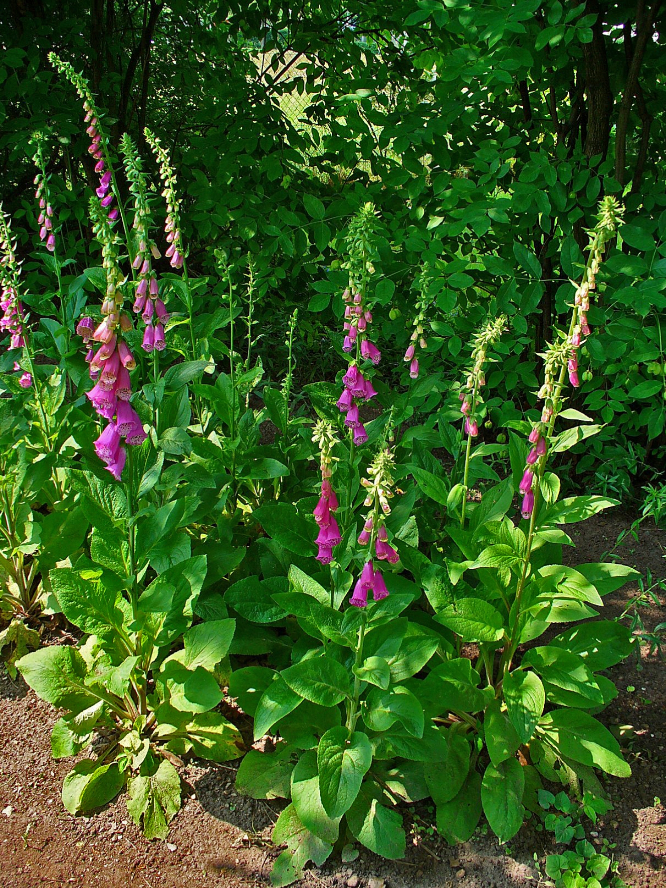 Digitalis purpurea, Plantaginaceae, Common Foxglove, Purple Foxglove, Lady's Glove, habitus; Botanical Garden KIT, Karlsruhe, Germany. The fresh leaves are used in homeopathy as remedy: Digitalis (Dig.)